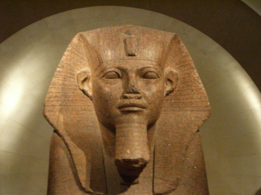 Great sphinx bearing the names of Amenemhat II (12th Dynasty), Merneptah (19th Dynasty) and Shoshenq I (22nd Dynasty).